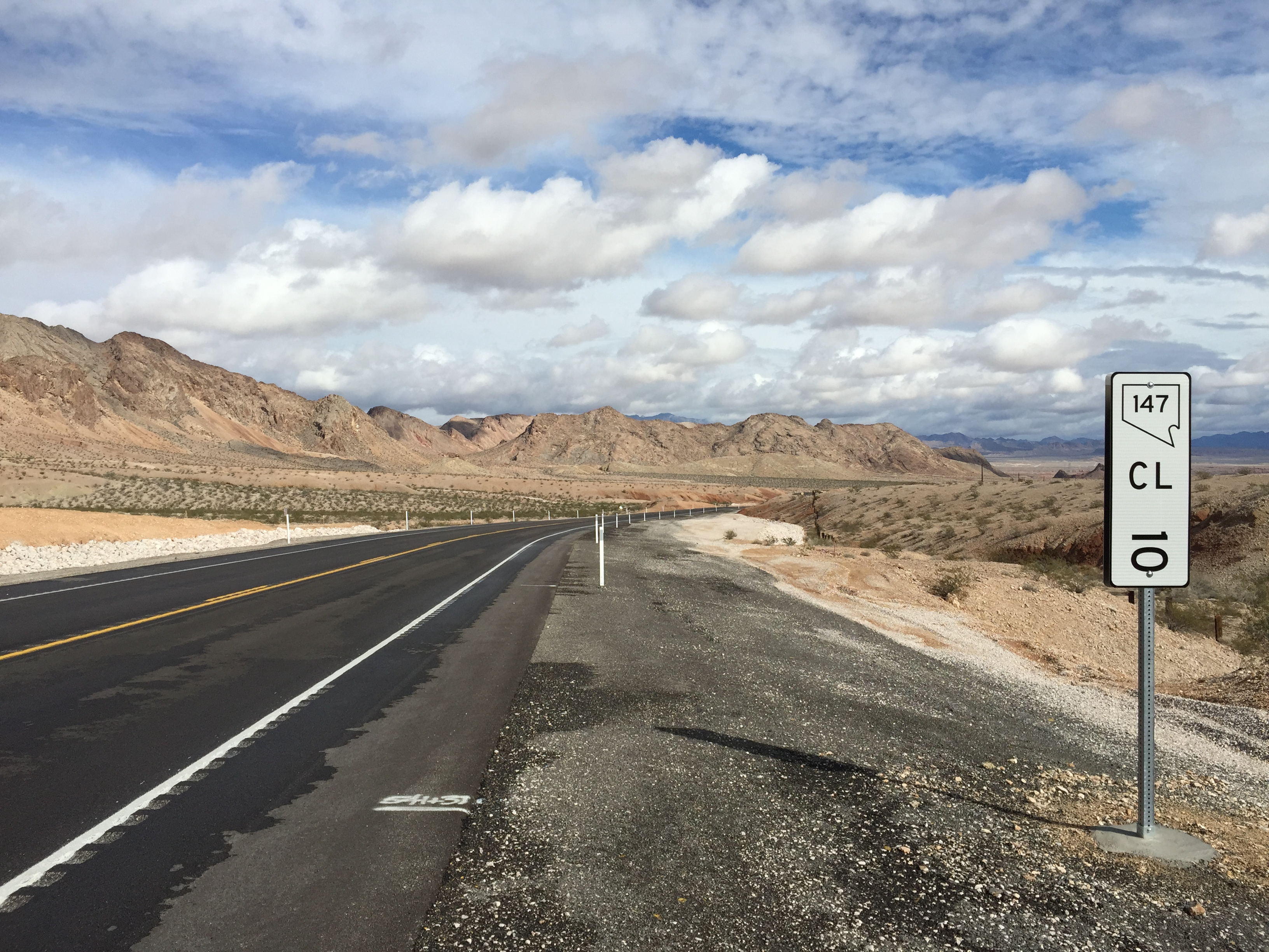 View east at milepost 10 along Nevada State Route 147 (Lake Mead Boulevard) in Clark County, Nevada